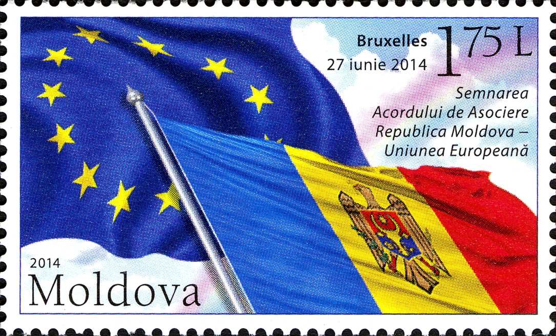 Stamps of Moldova, 2014